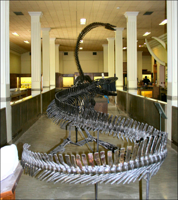 Rapid City School of Mines South Dakota